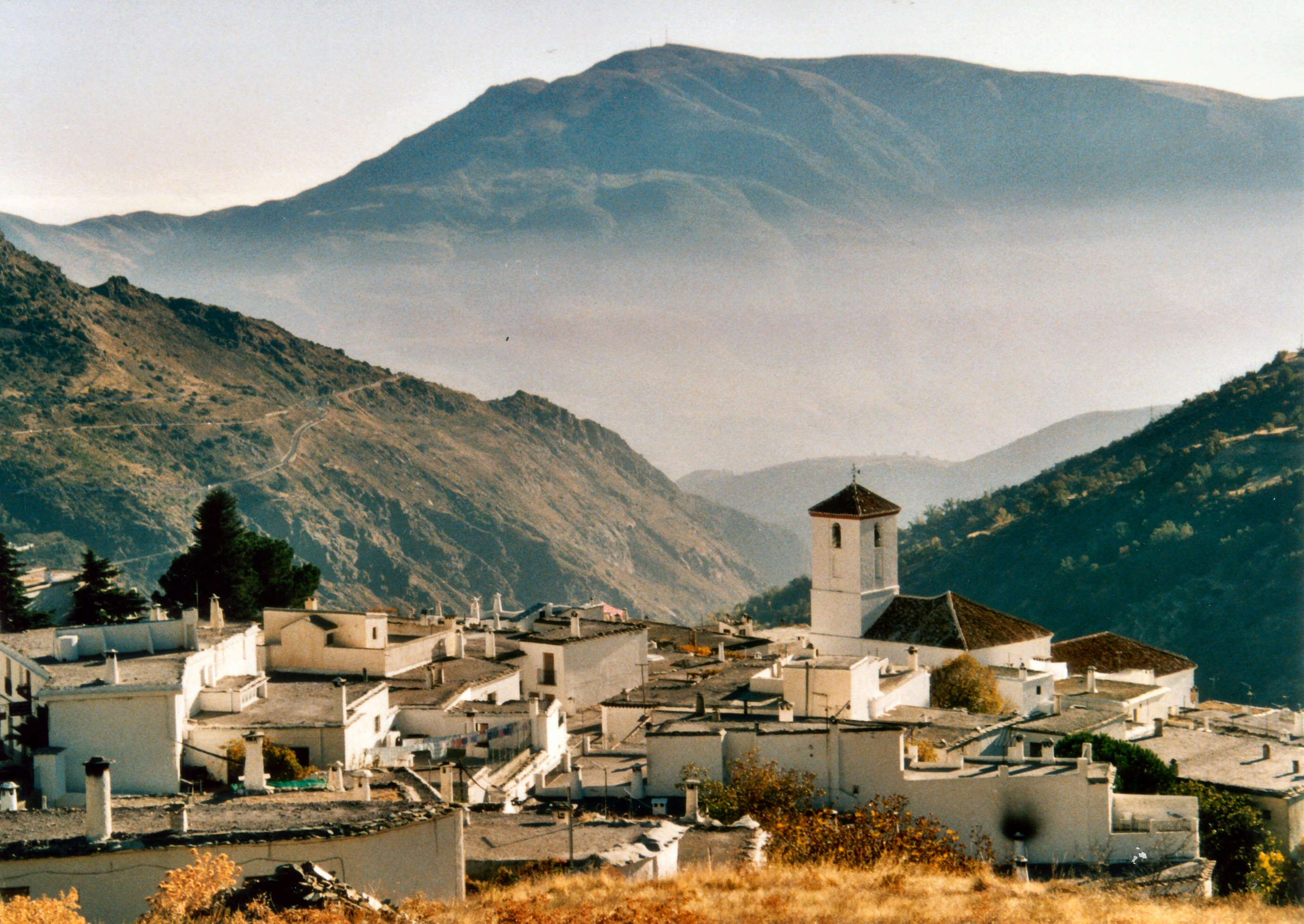 Capileira village. Capileira is the highest and most northerly of the three villages in the gorge of the Poqueira river in the La Alpujarra district of the province of Granada, in Spain. It is located at latitude 36° 57' N and longitude 3° 21' W.